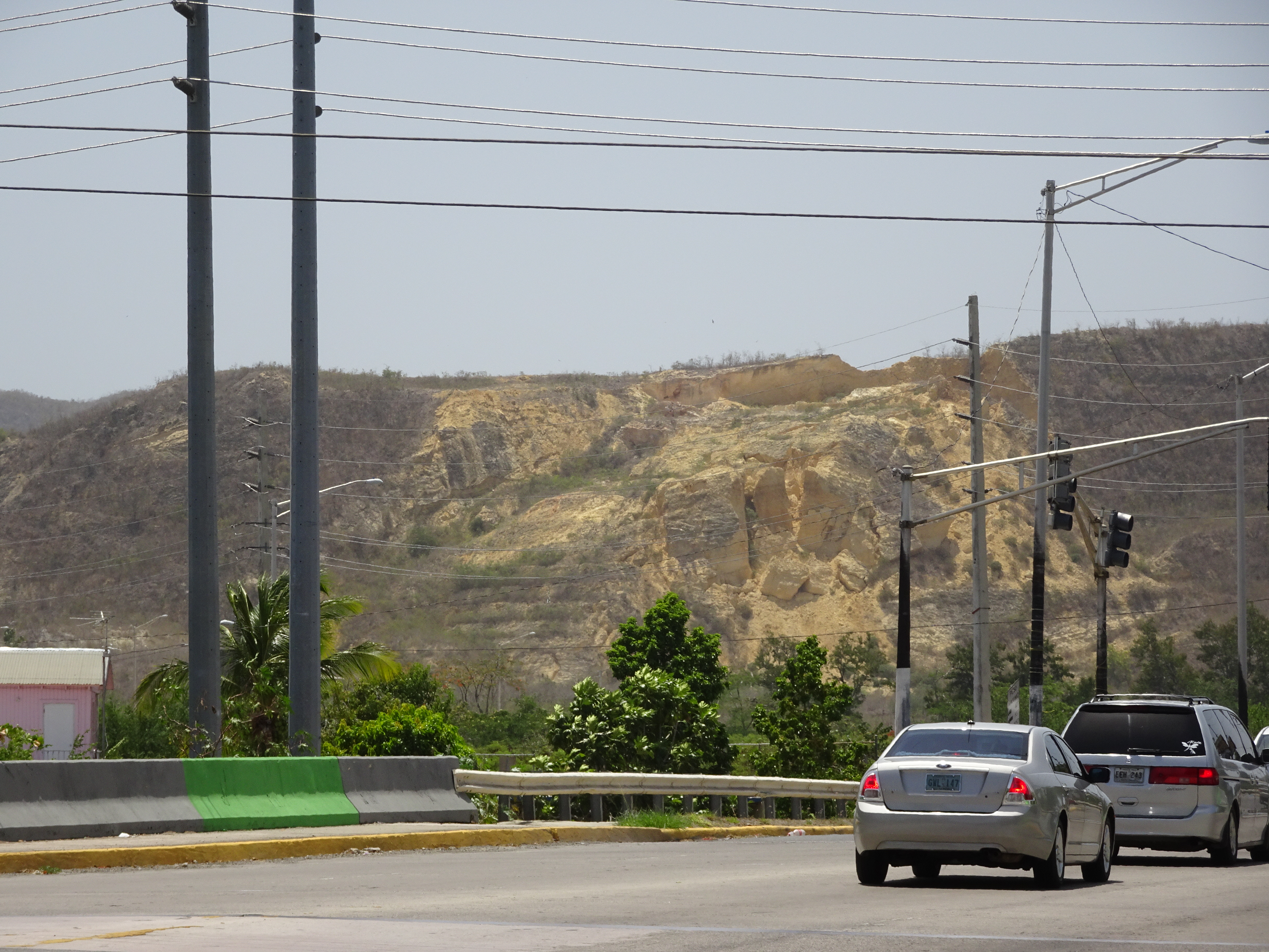 Caliza de Ponce (Ponce Limestone), cerca del Río Pastilllo, Bo. Canas, Ponce, Puerto Rico, mirando al suroeste desde INT PR-163 y PR-500